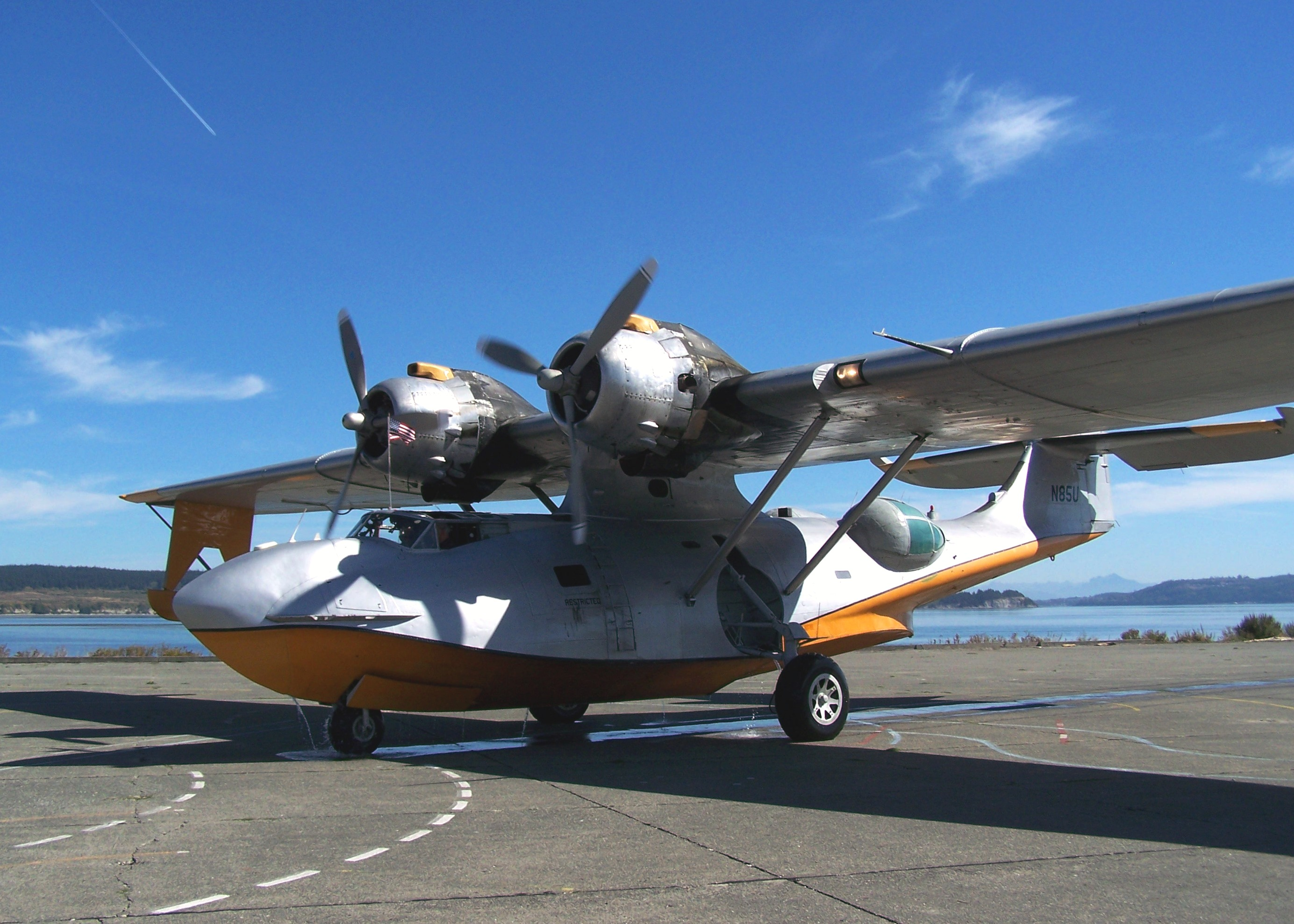 Civilian PBY Catalina at NAS Whidbey Island Seaplane Base 2009 This aircraft was destroyed during the filming "Men of Courage" on July 4th, 2015